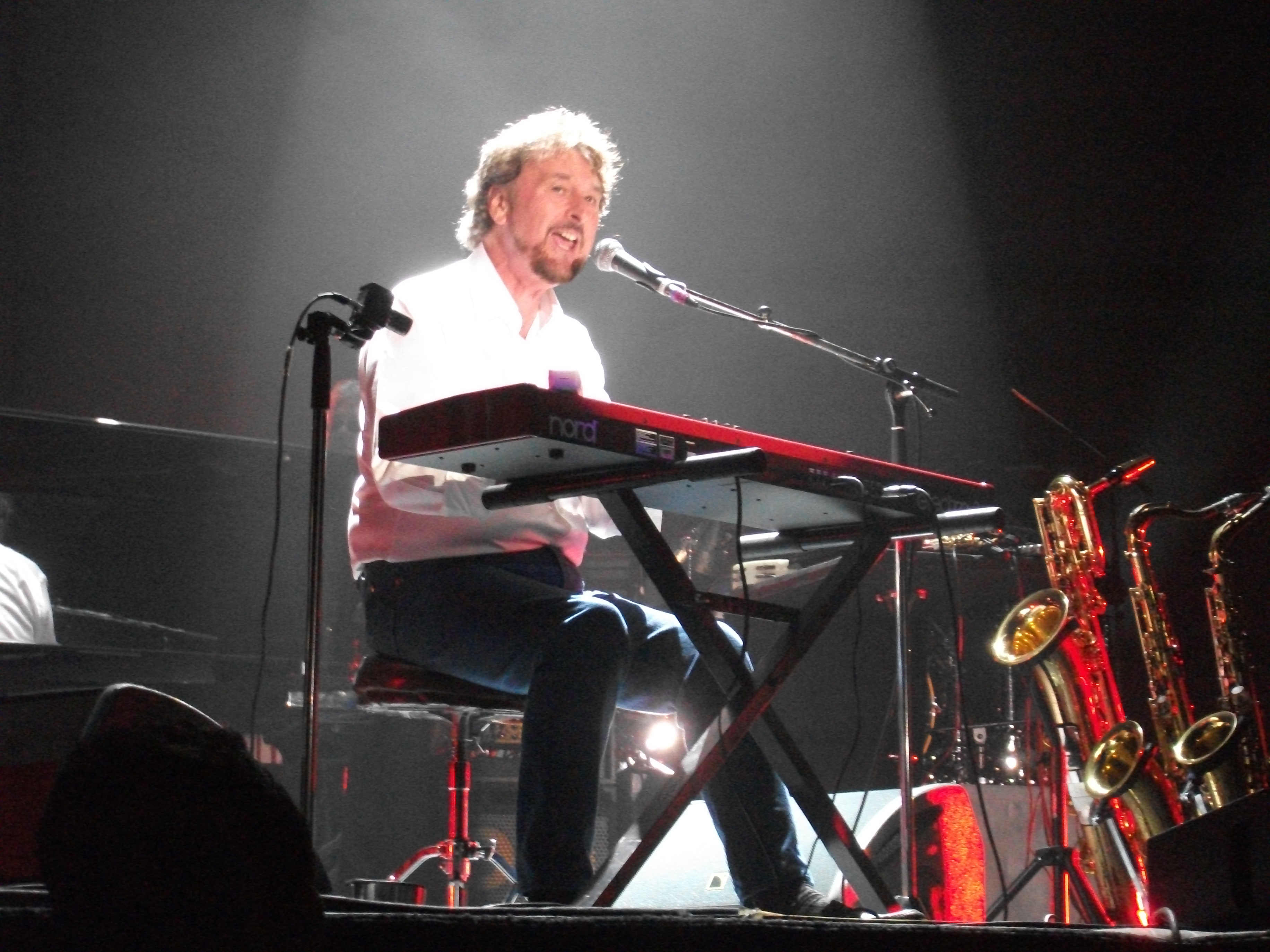 Rick Davies, leader of Supertramp, playing Wurlitzer piano at BBK Live 2010 in Bilbao, Basque Country, Spain (September 17th 2010).